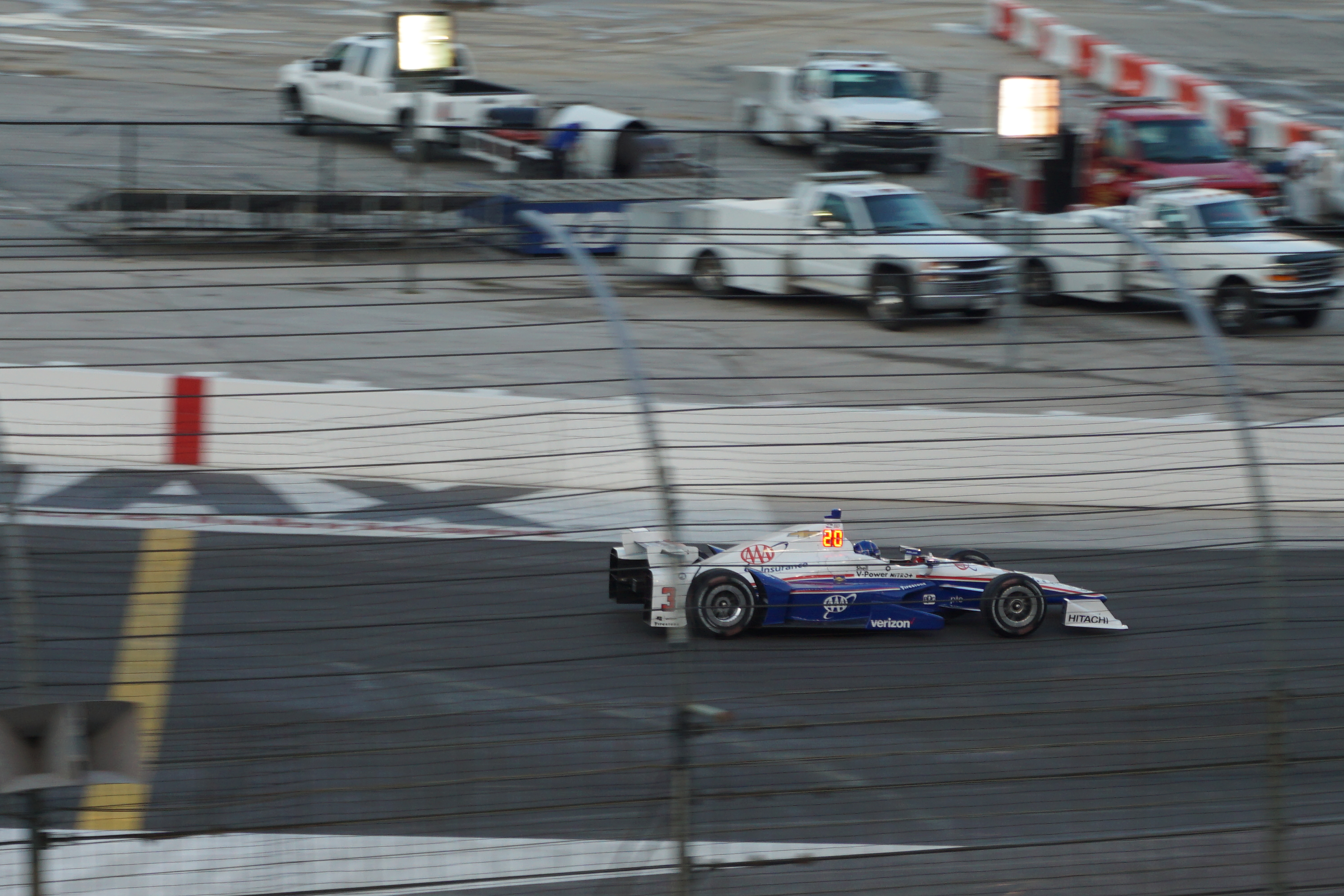 Hélio Castroneves exiting pit lane during the 2017 Rainguard Water Sealers 600 at Texas Motor Speedway in Fort Worth, Texas (United States).